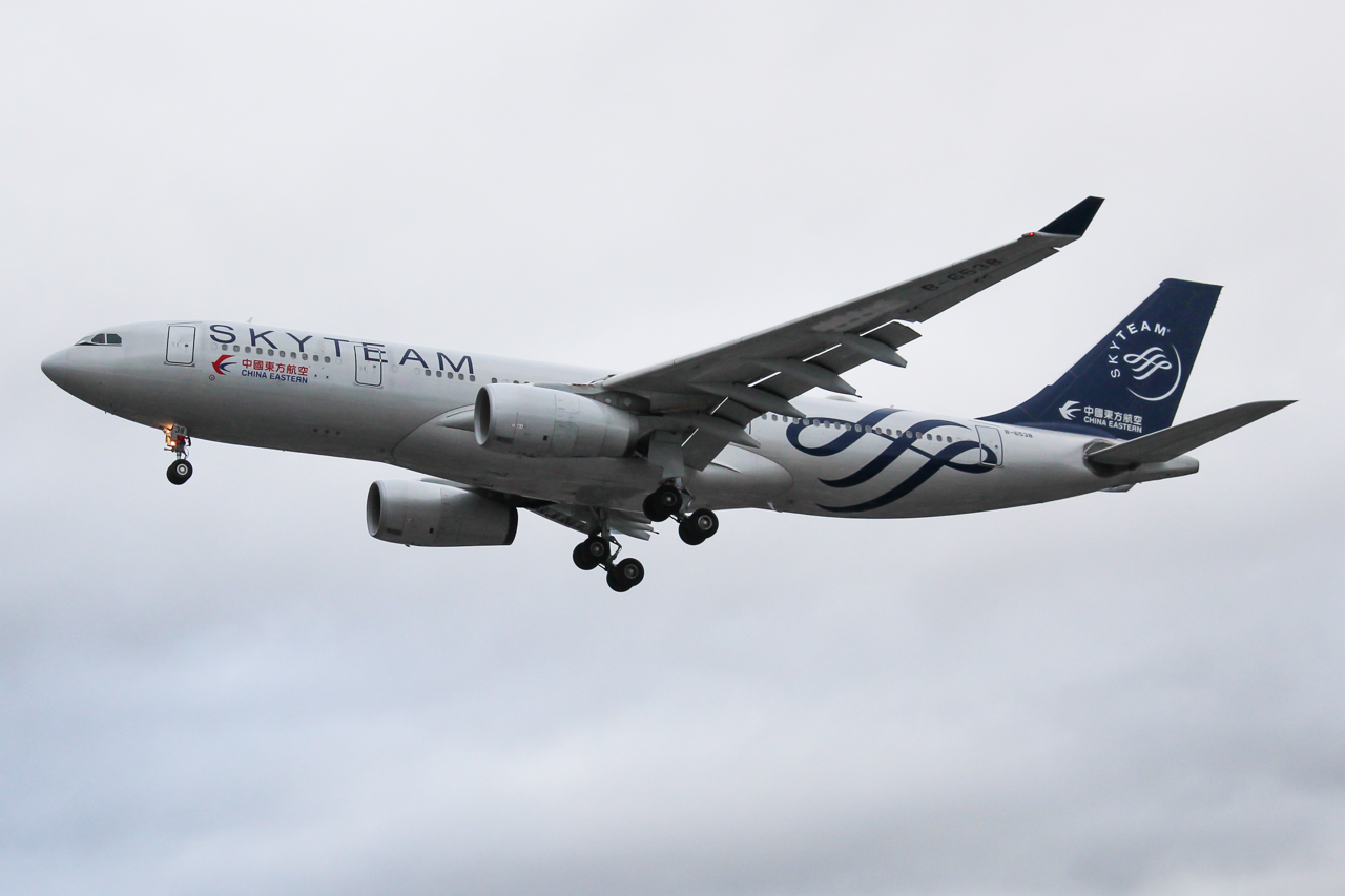 B-6538 A330 China Eastern